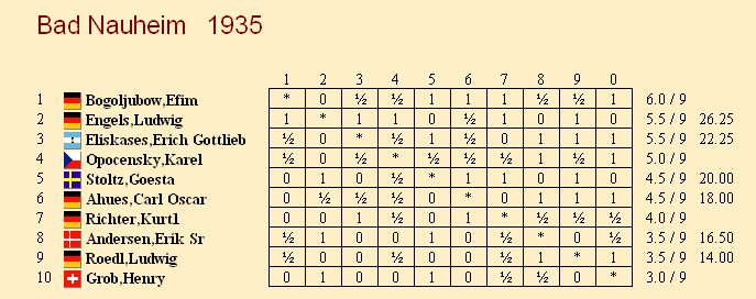 Chess_tournament table Bad_Nauheim_1935